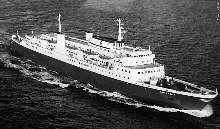 Passenger ferry MS Tor Anglia